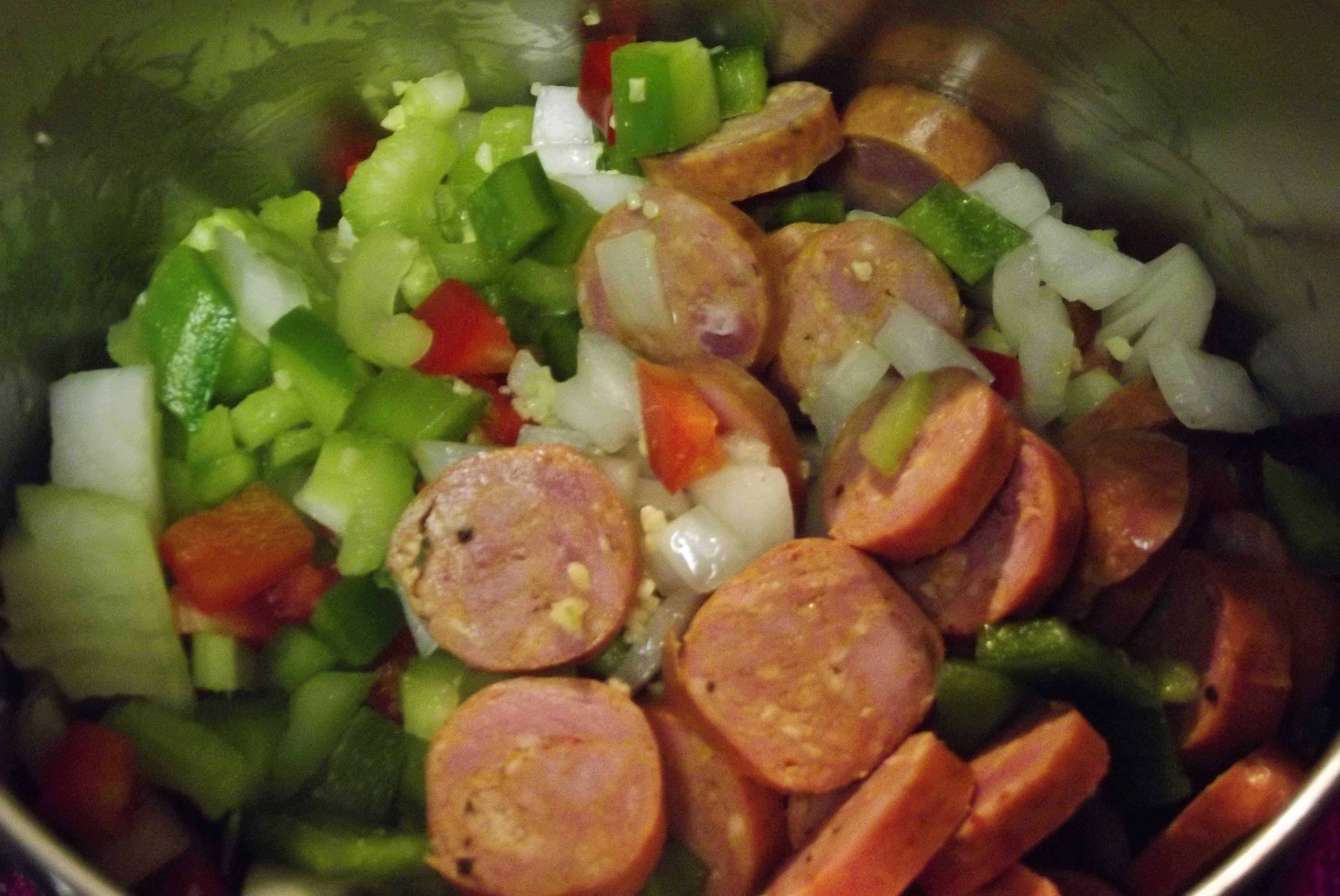 Ingrediants for Jambalaya in a cooking pot.